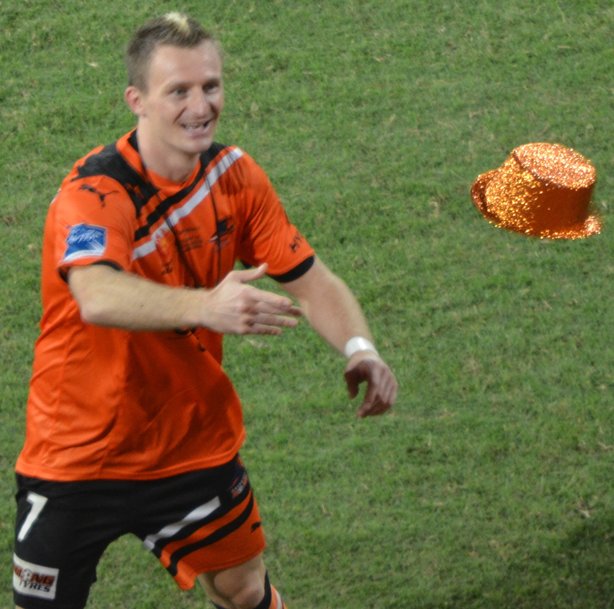 Orange Sunday II, A-League Grand Final, April 22 2012.